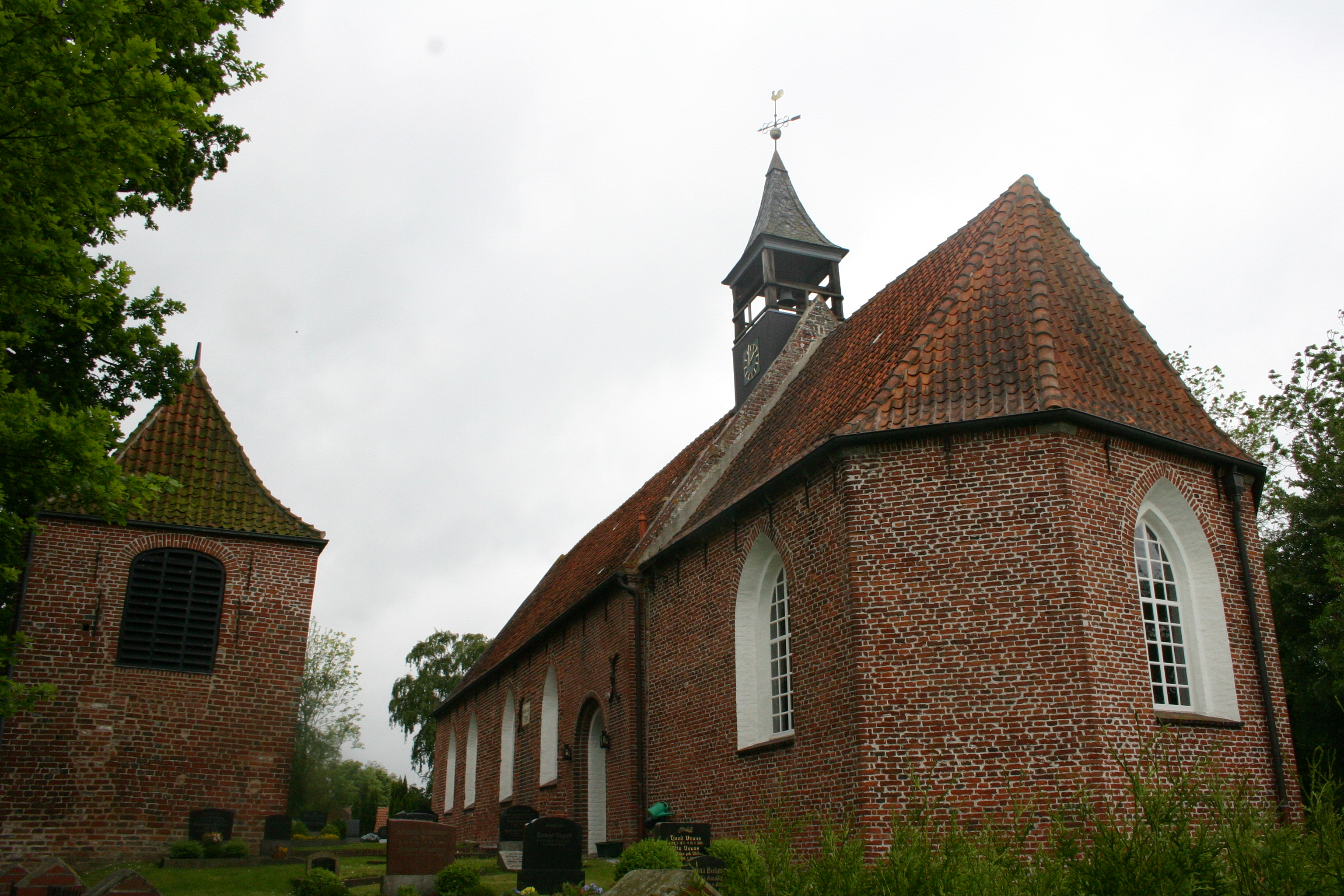 Historic church (reformed) in Jennelt, district of Aurich, East Frisia, Germany